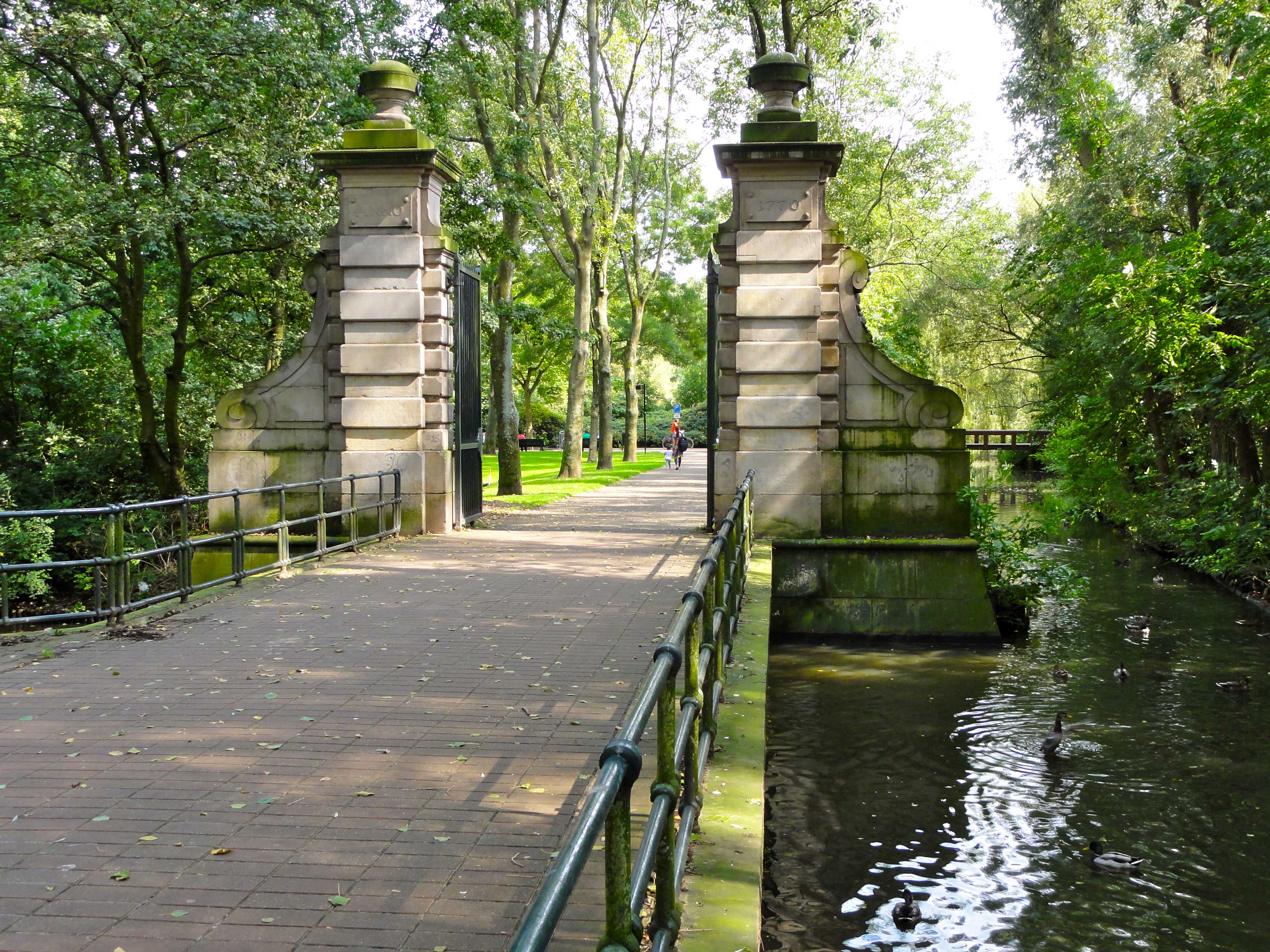 Entrance of the Flevopark in Amsterdam, bridge 196 in front, bridge 212 on the far side right